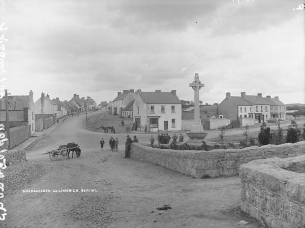 Ca. 1880-1914 Reference number: L_ROY_09671